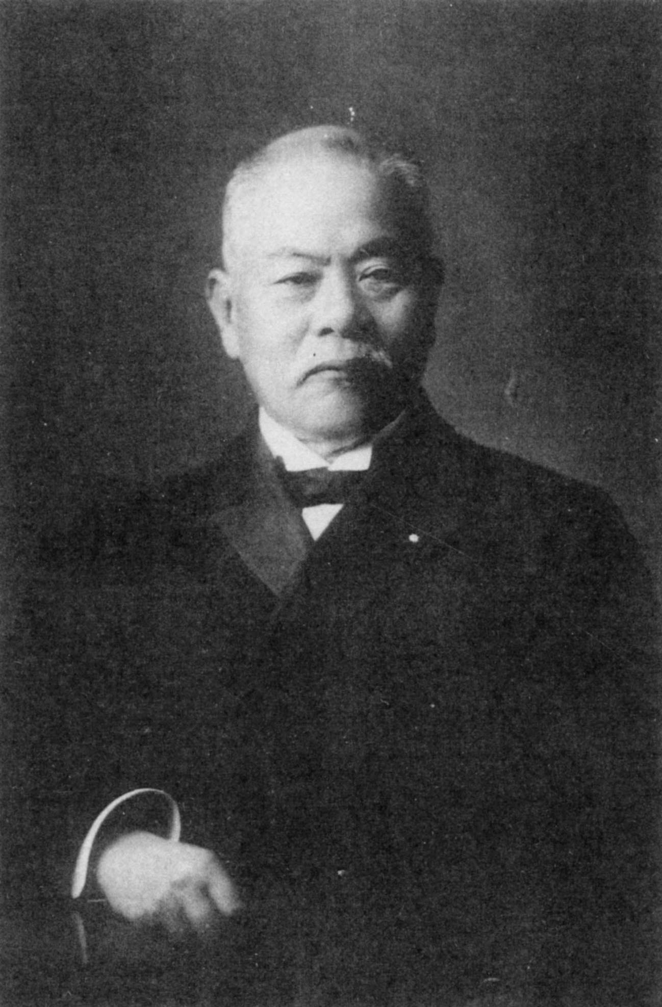 Portrait of the late Viscount Mr. A. Hamao.